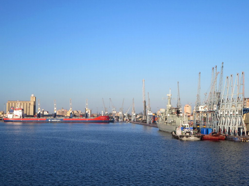 The Porto do Lobito is Angola's second largest.